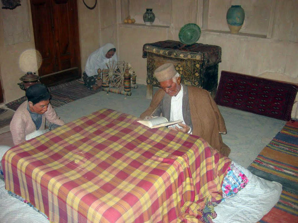 A Korsiand some wax statue in Naeen Museum of Anthropology